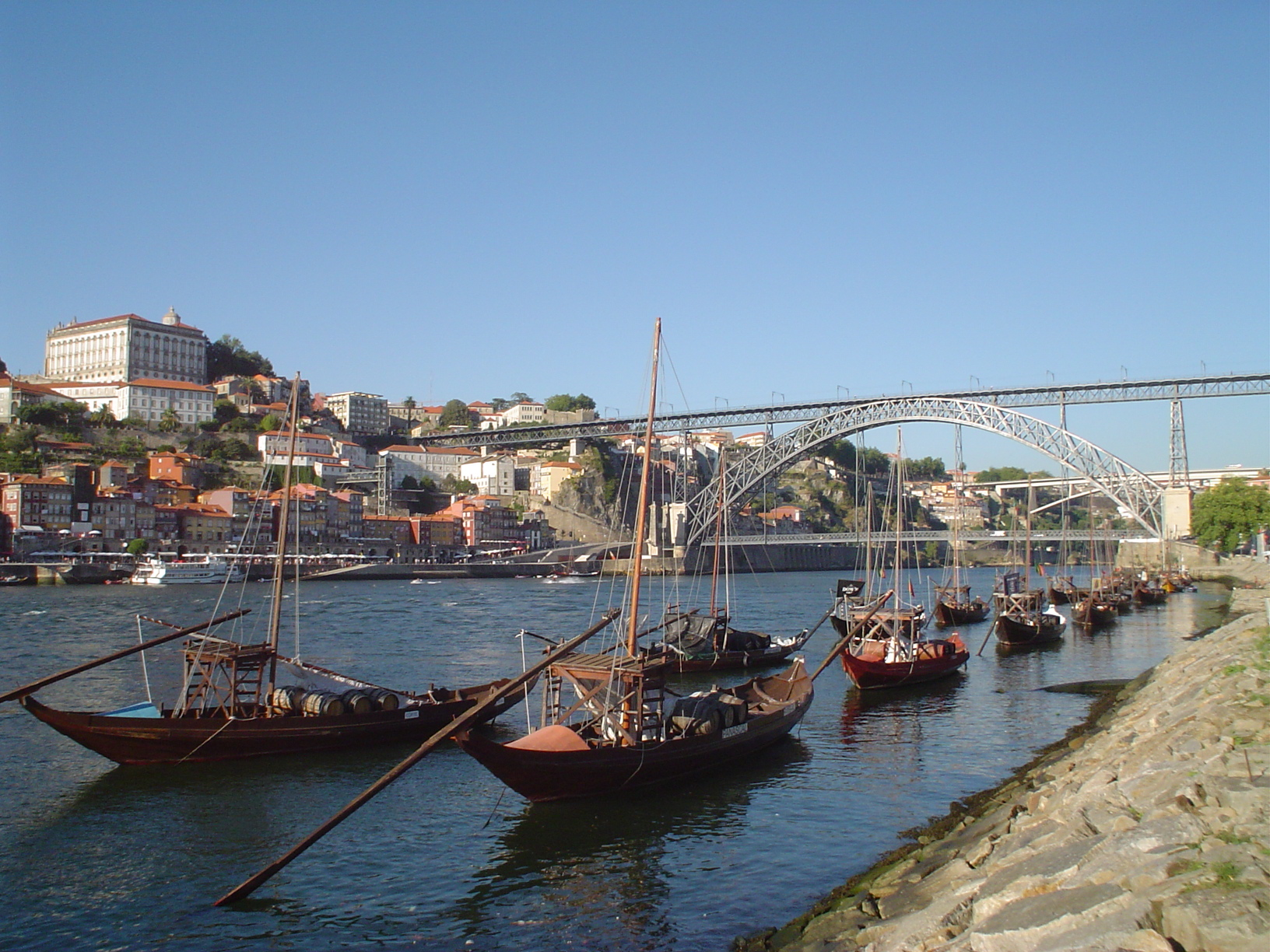 Rabelo's in Porto